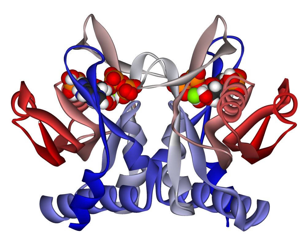 Ribbon diagram of a human adenine phosphoribosyltransferase (APRTase) dimer in complex with phosphoribosyl pyrophosphate, adenine and ribose 5-phosphate. Units colored from N- to C-terminal end; one magnesium ion visible in green, the other obscured.Created using Accelrys DS Visualizer Pro 1.6 and GIMP. Legend Magnesium ion